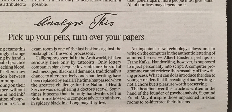 Sigmund Freud handwriting font used in The Times of London from June 5 2015[1].